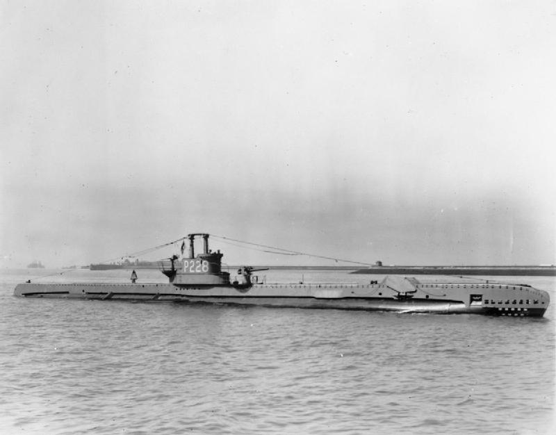 British S class submarine HMSM SPLENDID underway off Sheerness.